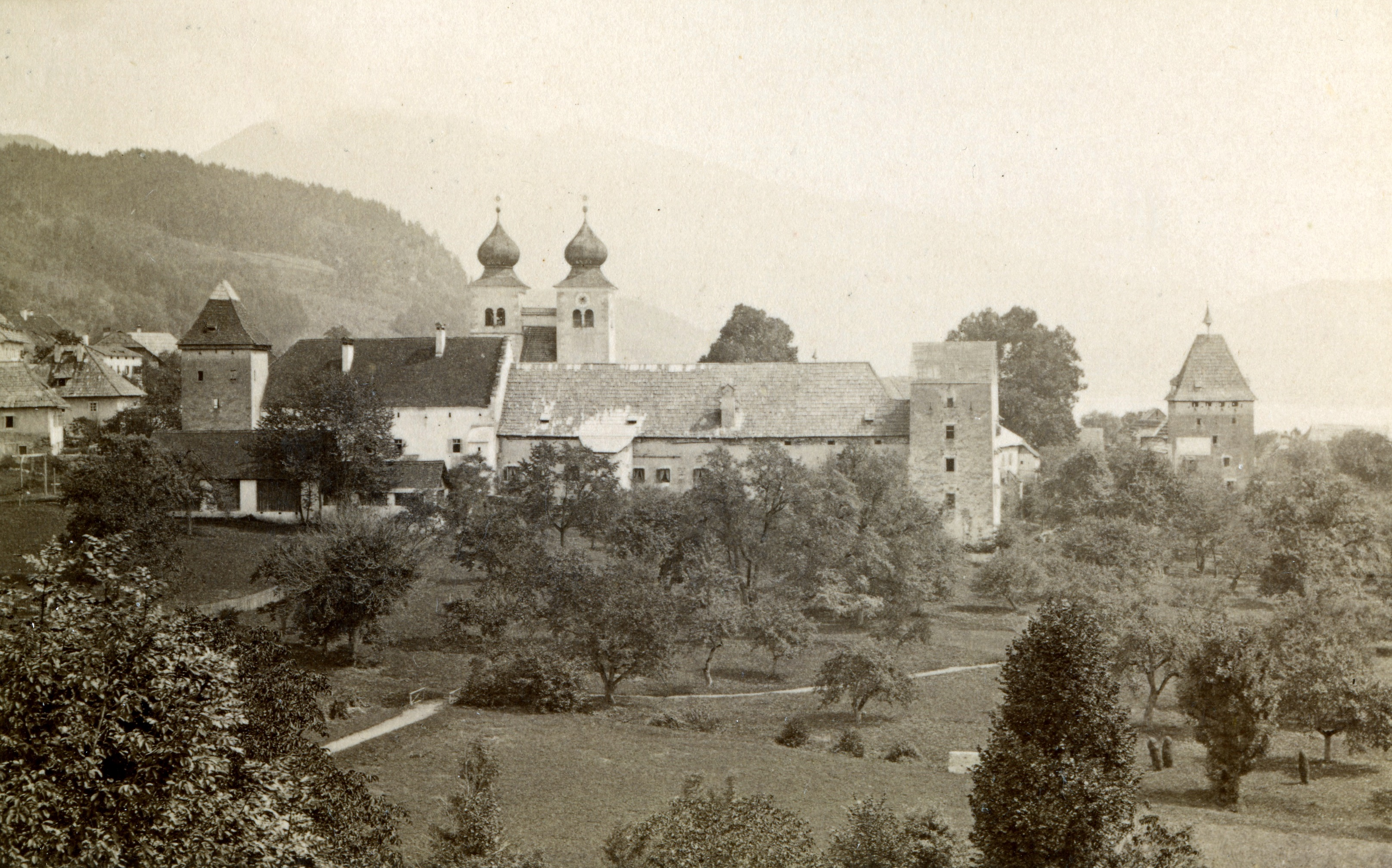 Millstatt Abbey near Spittal an der Drau / Carinthia / Austria / EU. West view around 1890. In contrast to today the onion dome towers are still connected by a corridor. Original image size: 58 X 93 mm. Imprint: Kärnten. No. 731. Millstatt, Westseite. The Mirnock can be seen in the background dimly. The orchard at the forefront belonging to the grounds of the monastery.